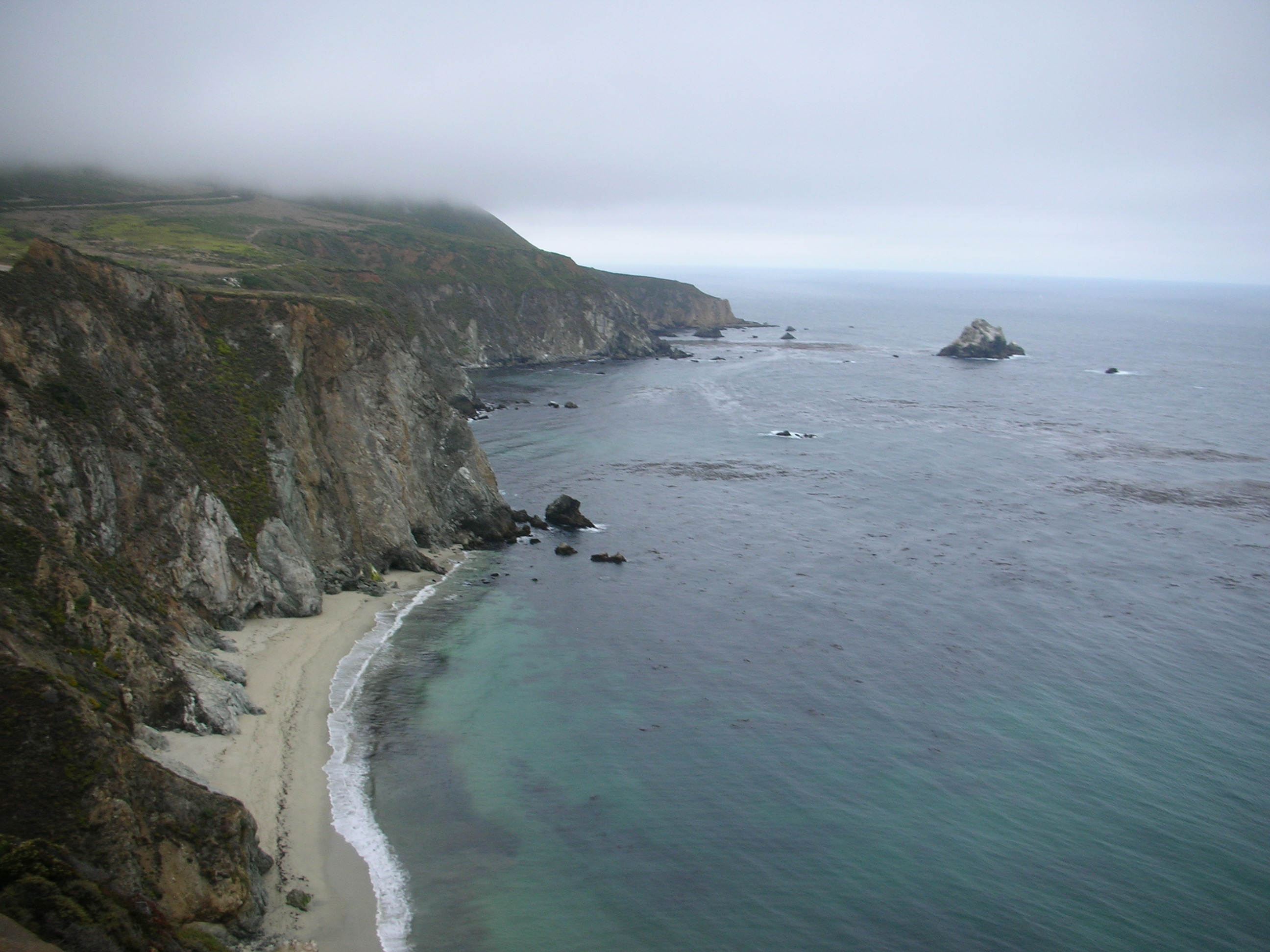 The landscape of Big Sur from Bixby Bridge in California, USA